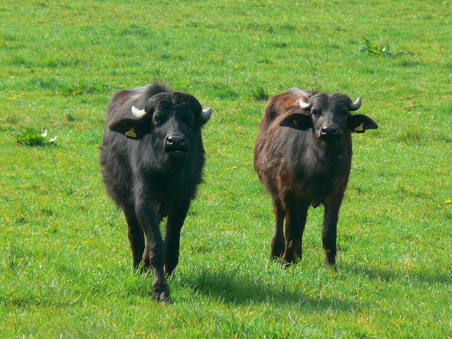 Water buffalo, Little Hungerford, West Berkshire Not a sight I was expecting. Driving past I noticed this field with a number of strange-looking cattle. They were some way off but as I waited at the edge of the field, curiosity got the better of them and they came over to meet me. I'm guessing that they are about a year old. The stockman at the farm confirmed that they were, indeed, water buffalo.